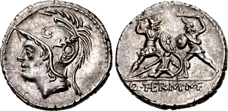 Q. Minucius M.f. Thermus 103 BC. AR Denarius (20mm, 4.08 g, 9h). Rome mint. Head of Mars left, wearing helmet ornamented with plume and annulet / Two warriors fighting, each armed with sword in right hand and shield in left; the one on the left protects a fallen comrade; the other wears horned helmet; Q • (THE)RM (MF) in exergue. Crawford 319/1; Sydenham 592; Minucia 19; RBW 1174. Superb EF, lightly toned. Well centered and struck. Ex Dr. Patrick H. C. Tan Collection (Triton XX, 9 January 2017), lot 509 (hammer $1900).